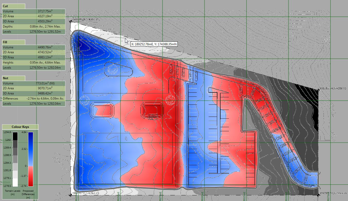 Screen capture of cut and fill map and earthworks estimation summary produced by Kubla Cubed 2016.